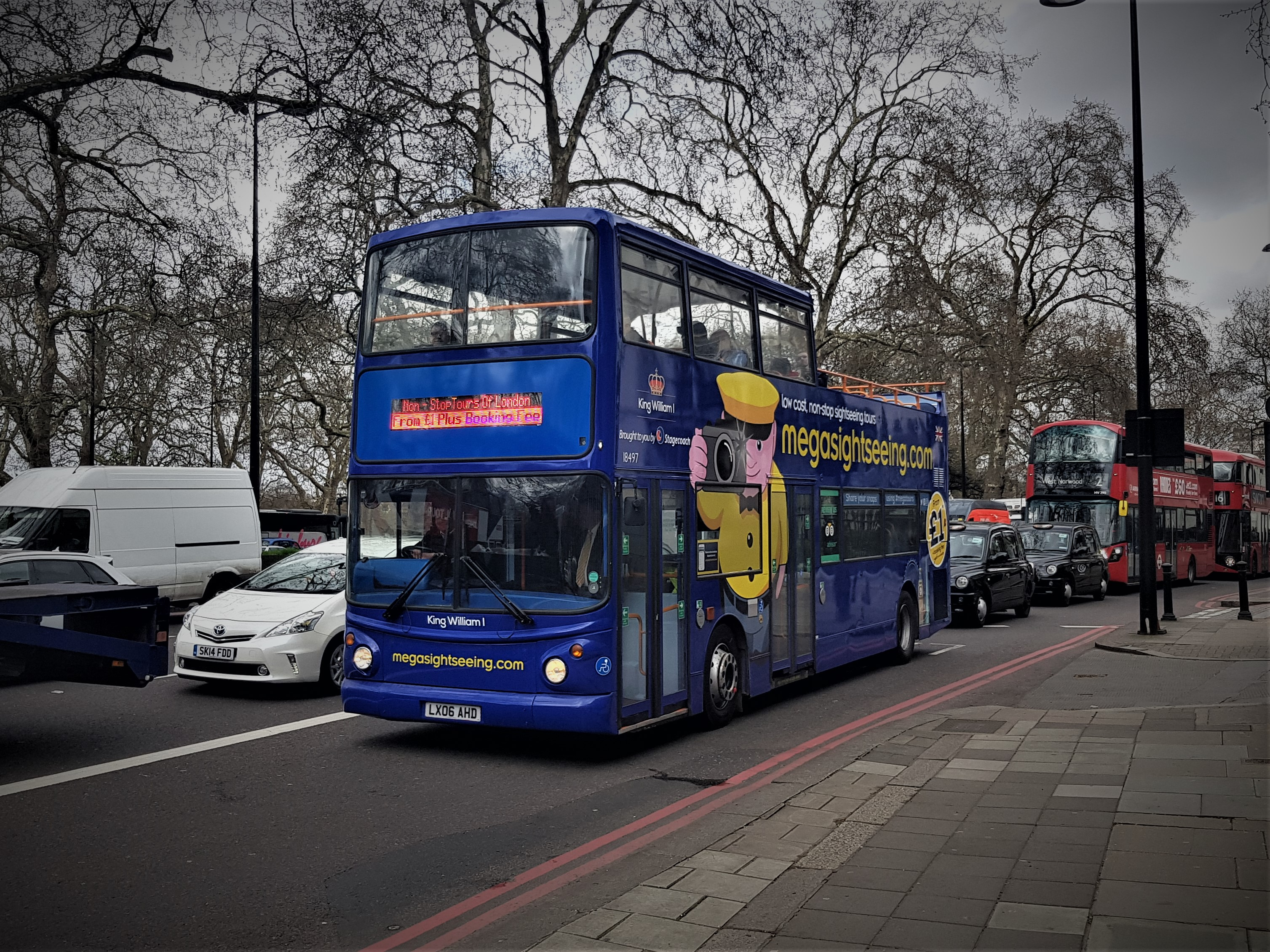 Alexander Dennis ALX400 Trident 'King William I' on Park Lane, London.